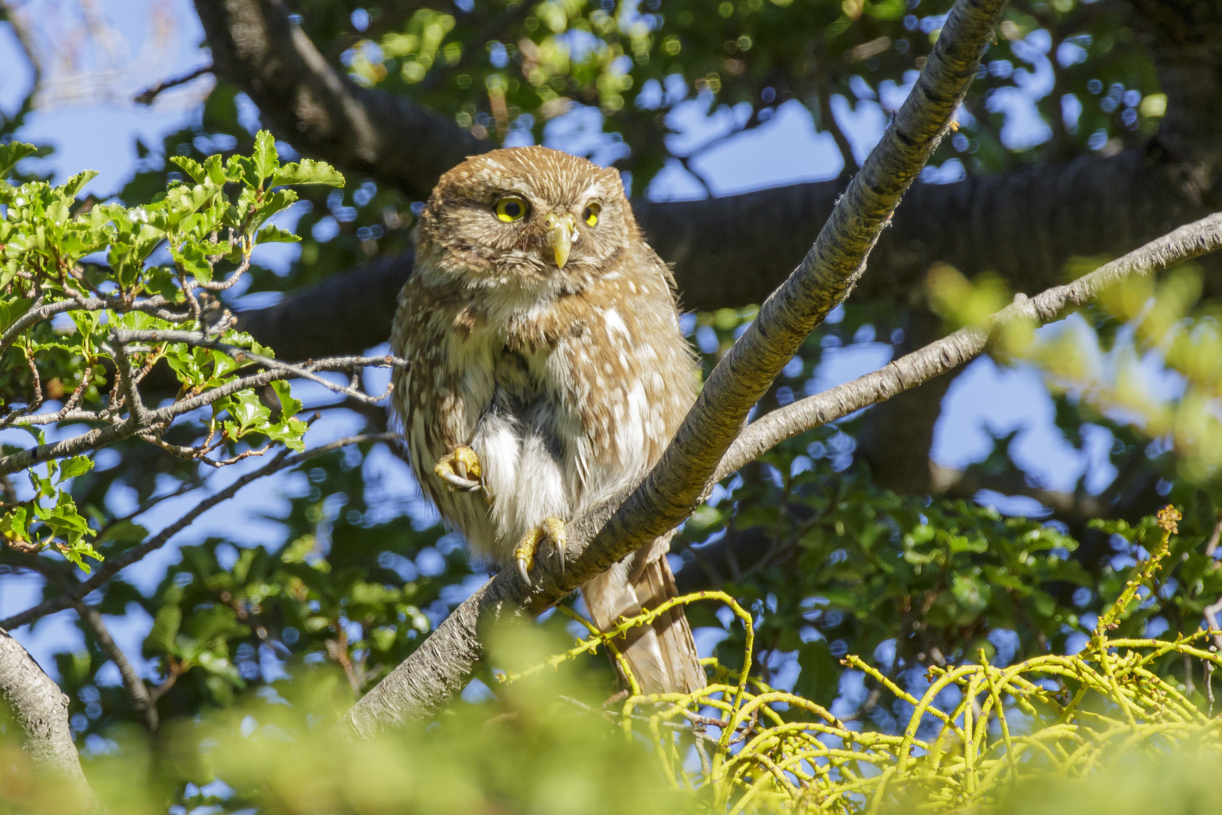 PanAmericana 2017 - the image was taken on an overlanding travel from Ushuaia to Anchorage - taken by Thomas Fuhrmann, SnowmanStudios - see more pictures on / mehr Aufnahmen auf